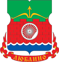 Lyublino (rayon of Moscow), coat of arms